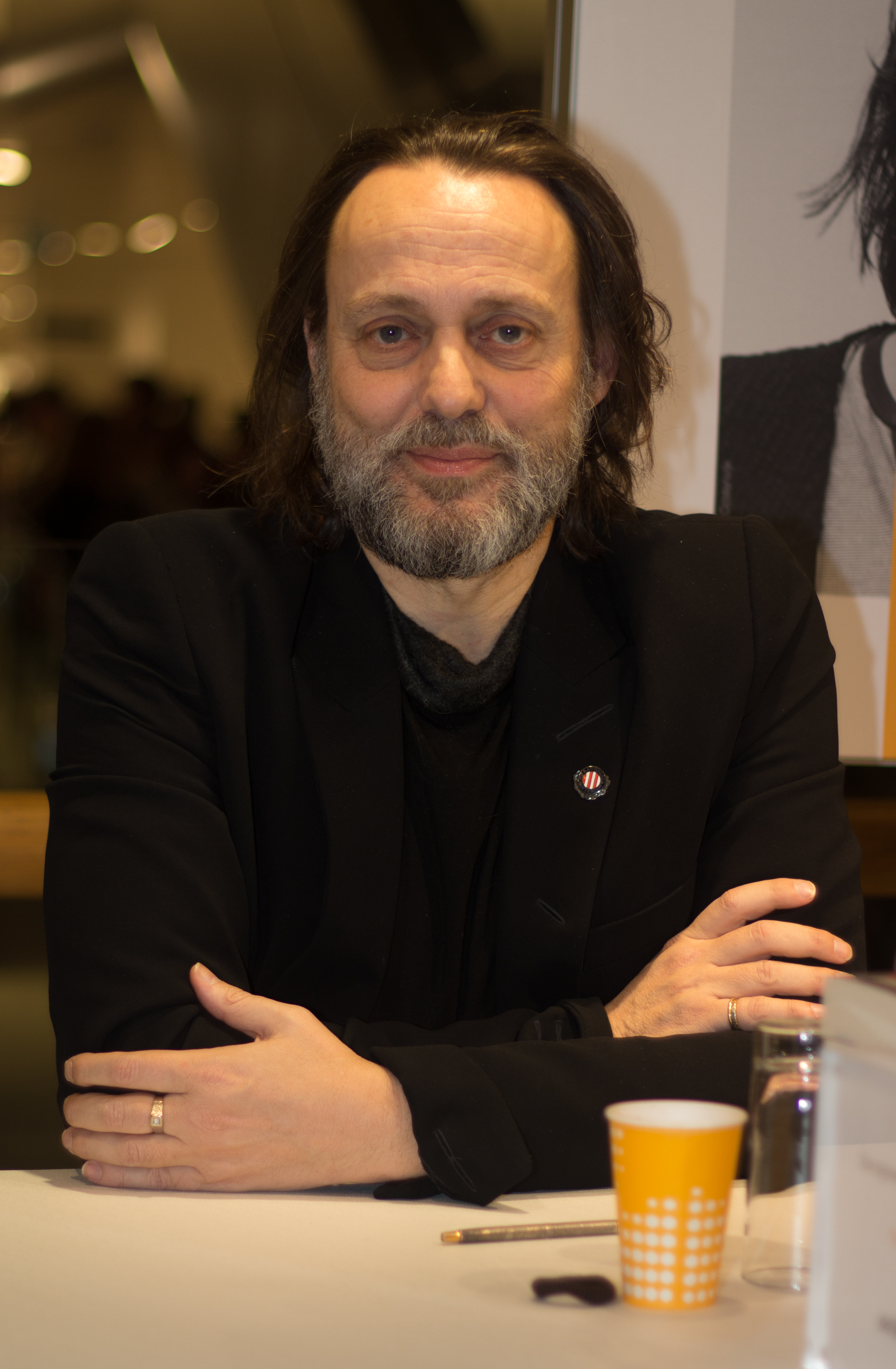 Feest der Letteren 2016